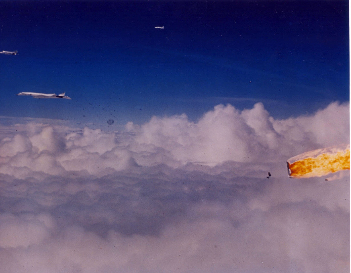 The North American XB-70A Valkyrie (s/n 62-0207) after the collision, 8 June 1966. Other aircraft are: Northrop T-38A-15-NO (s/n 59-1601), McDonnell F-4B-15-MC (BuNo 150993), Lockheed F-104A-20-LO (aka F-104N) (s/n 56-813, exploding), and Northrop YF-5A-NO (s/n 59-4989).